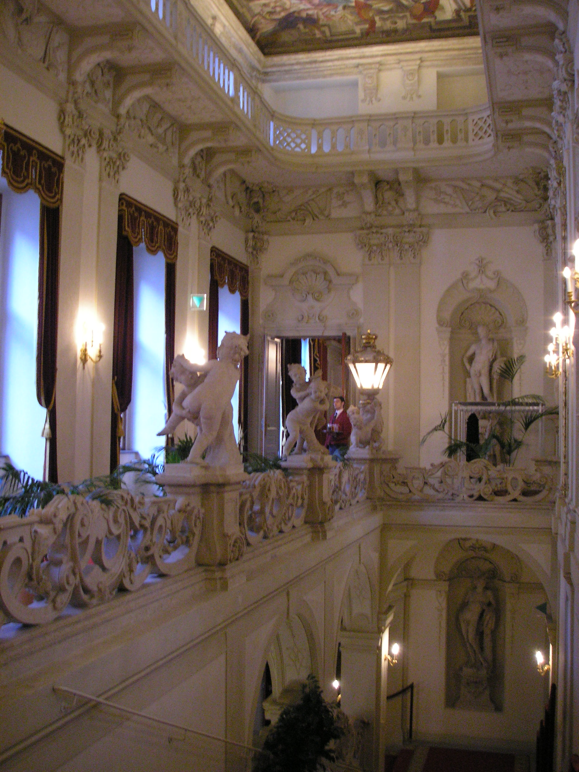 Interior view of the Palais Kinsky in Vienna. Constructed in the baroque era for the noble Kinsky von Wichnitz und Tettau family.